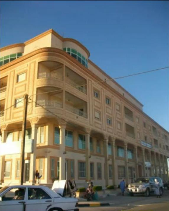 building in nouakchott